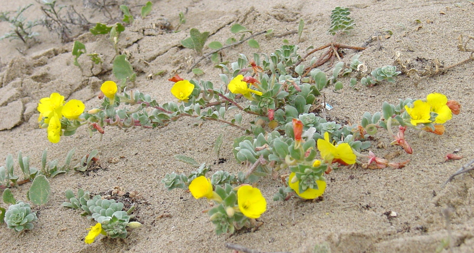 Description: Beach Evening Primrose (Camissoniopsis cheiranthifolia) on coastal dune in Malibu, California. Picture taken by: Noah Elhardt Note: This species is actually Camissonia cheiranthifolia (The genus Camissonia was distinguished from Oenothera recently). NoahElhardt 20:56, 10 April 2006 (UTC)